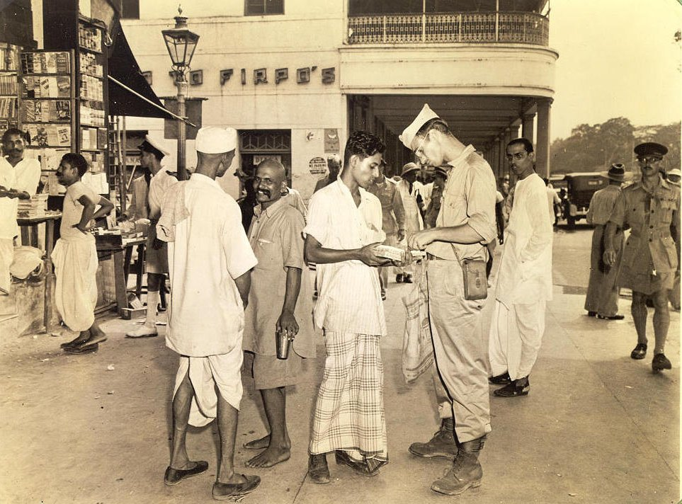 Original description: "The GI tourist here ponders the purchase of a 'rare gem'---a typical camera study of life on Chowringhee during the war. Firpo's famous restaurant is in the background, and dhoti-clad Indians and a British officer in shorts lend a bit of atmosphere." The South Asia Section of the Van Pelt Library, University of Pennsylvania recently acquired from a bookdealer a photograph album consisting of 60 photographs of Calcutta taken most likely between 1945-1946. The photographer, Mr. Clyde Waddell, also provided the interesting glosses accompanying each photograph. Several attested copies of this work has emerged including one with a 'title page' held by the Southeastern Louisiana University in Hammond, Louisiana. Mr. Waddell was a military photographer. Many of his captions sound like annotations that would be found in a typical military magazine. The album begins with several general long shots of Calcutta and ends with a picture of dhobi-s (washermen) washing clothes. The text accompanying the last photograph also sounds as if the author intended to finish with that picture of one of the "great mysteries of India." The annotations have been included because of their intrinsic interest not only to the photographs but to a 'typical' American impression of India at this time.